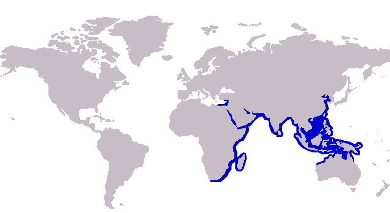 Self made image of the distribution of the northern whiting sillago sihama. Map based on